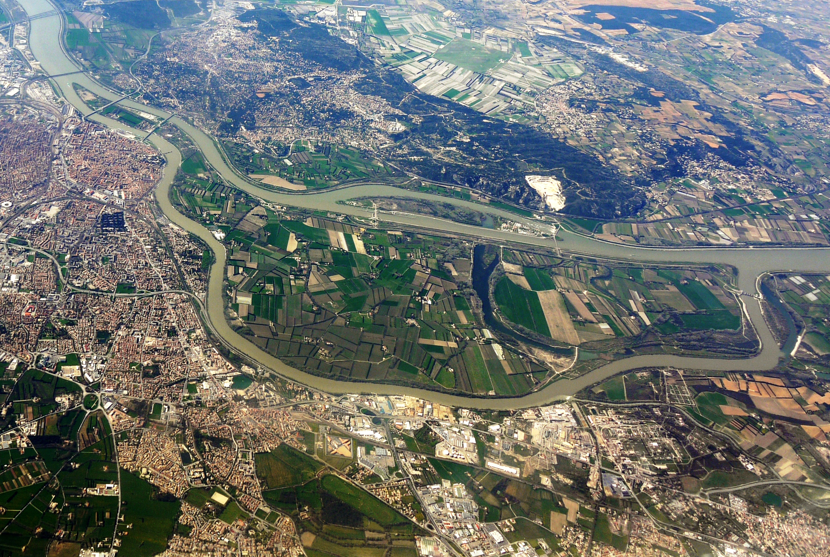 Avignon, photograph taken from the sky, on the fly line between Marseille and Stockholm.